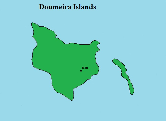 Doumeira Island